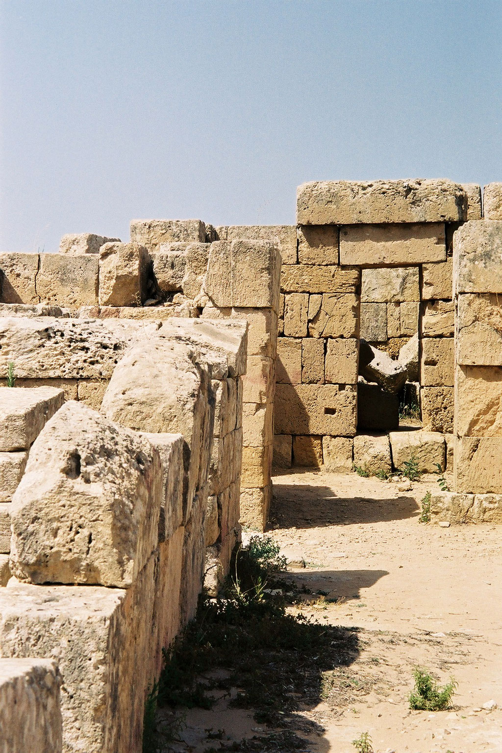 Selinunte (Sicily): Remainders of the ancient town north of the acropolis